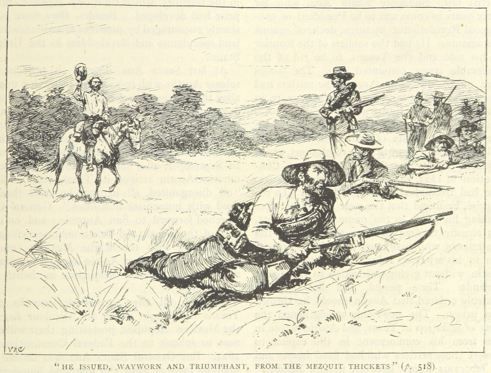 Benjamin Milam meets Texan troops about to attack Goliad at the 1835 Battle of Goliad (not the 1836 massacre).